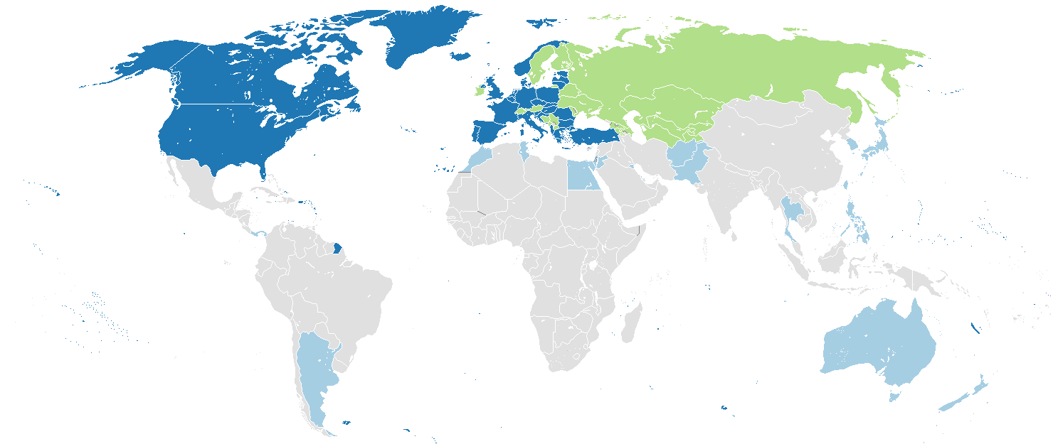 Military allies of the United States. NATO member states, including their colonies and overseas possessions, Compacts of Free Association Major non-NATO allies, plus Taiwan and Special Case: Panama Signatories of Partnership for Peace with NATO